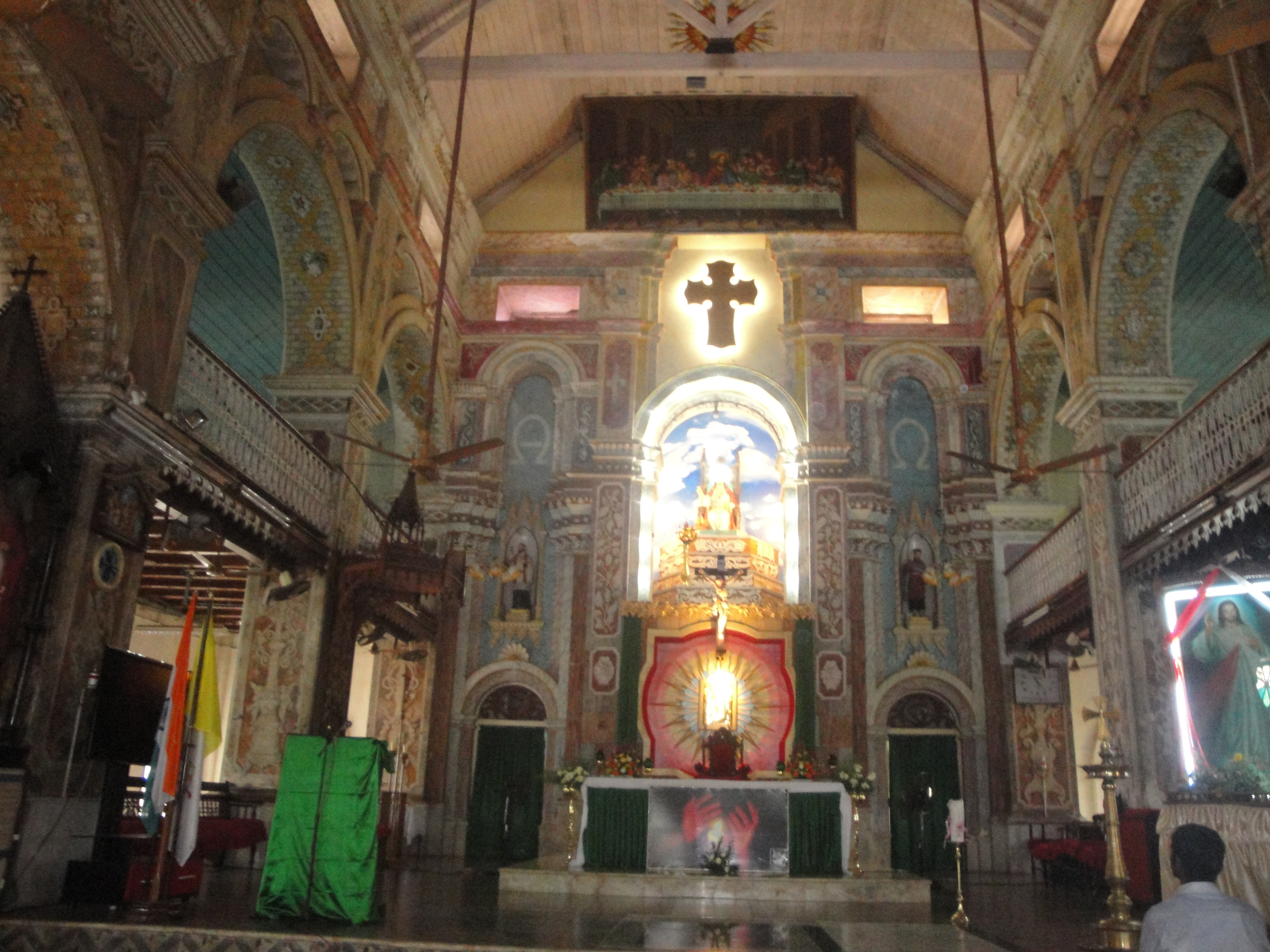 Inside of Santa Cruz Basilica Fort Cochin